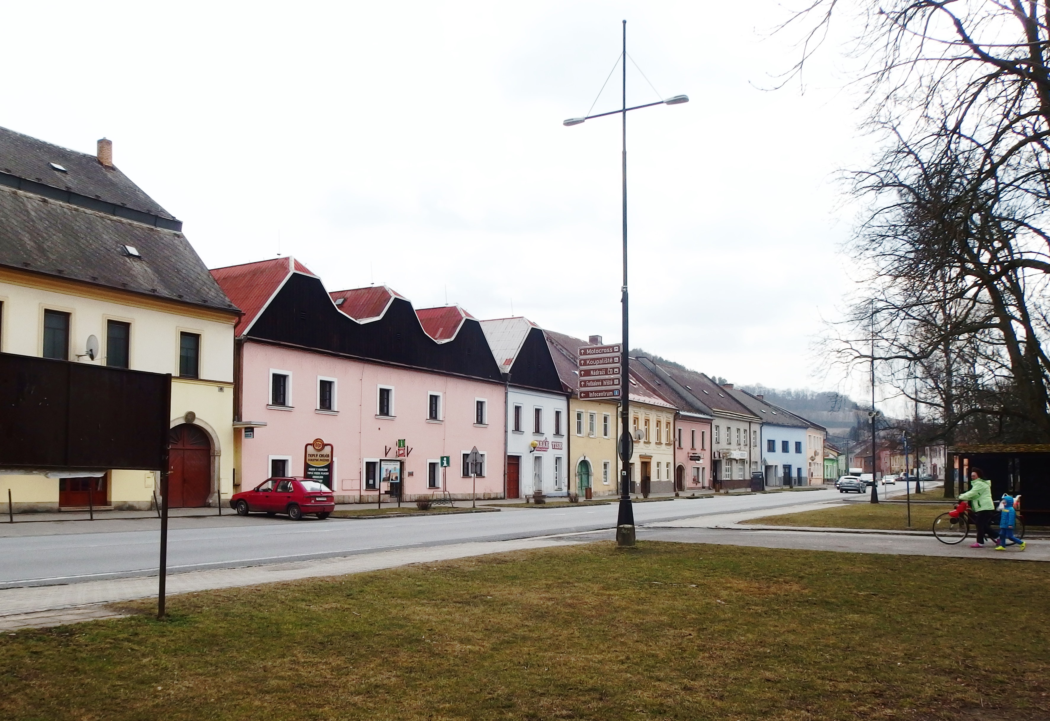 Březová nad Svitavou, Svitavy District, Czech Republic.